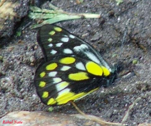 Hill Jezebel, Delias belladonna p on ground. Sucking minerals? Photographed on 27 Sep 2005 by Rahul Natu who has donated it for use on Wikipedia. This image has been uploaded with permission of Rahul Natu by Nature Loader.